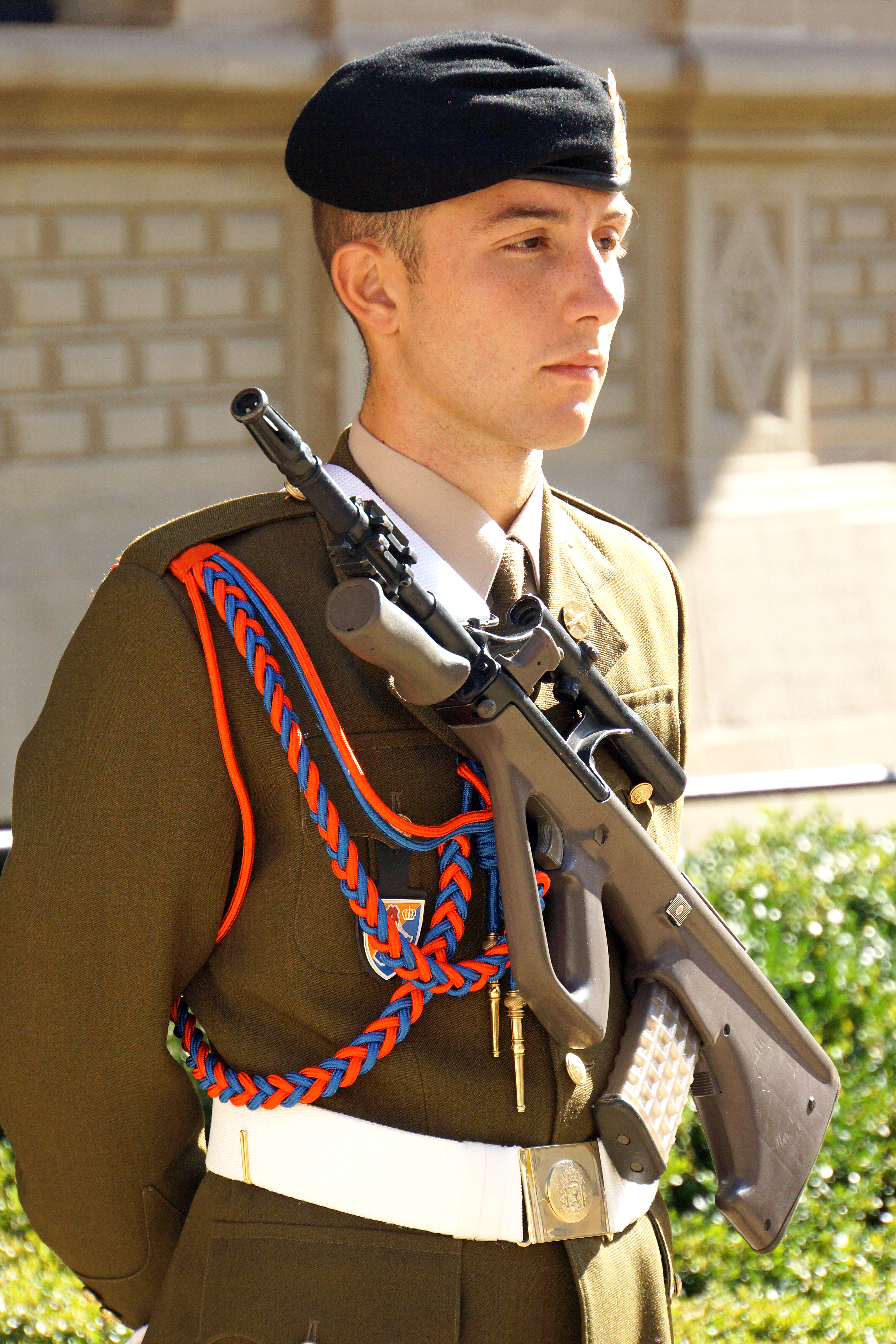 PLEASE, NO invitations or self promotions, THEY WILL BE DELETED. My photos are FREE to use, just give me credit and it would be nice if you let me know, thanks. The Grand Ducal Palace is the official residence of the Grand Duke of Luxembourg, and where he performs most of his duties as head of state of the Grand Duchy. The building was first the City Hall of Luxembourg from 1572 to 1795, it became the headquarters of the Luxembourg Government in 1817. From 1945 to 1966 the Grand Ducal Guard mounted ceremonial guard duties at the palace. From 1966 to today soldiers of the military of Luxembourg perform guard duties. He has a AUG A1 508mm, rife: Caliber 5.56x45mm NATO (.223 Remington) Barrel length 508mm (20 inches) Barrel twist Right-hand twist of one turn in 9 inches Chamber and Barrel Bore Chrome plated Overall Length 790mm (31 inches) Height 275mm (11 inches) Weight of Weapon Without Magazine 3.6kg (7.9 pounds) Weight of Empty Magazine 0.13kg (0.3 pounds)